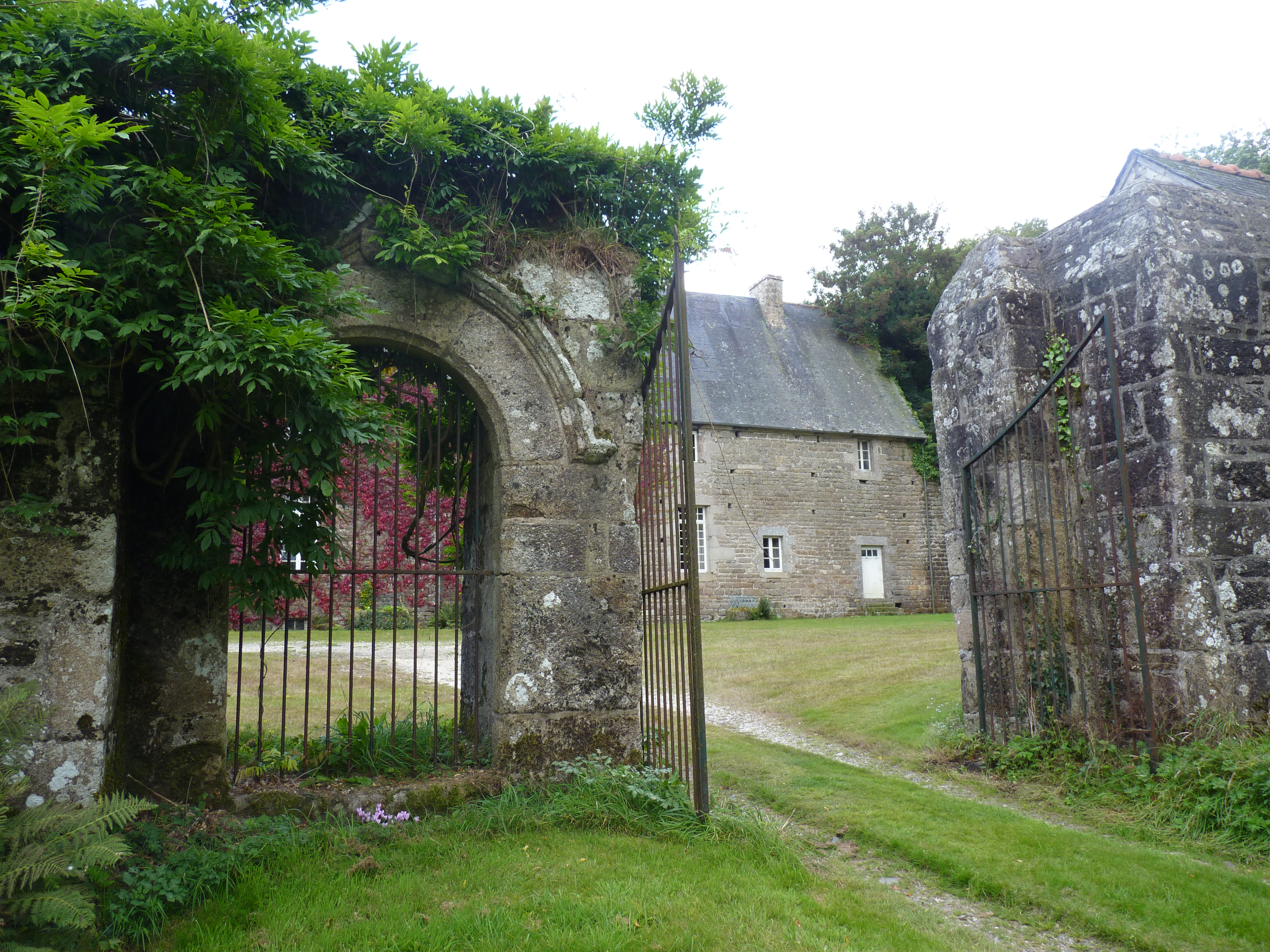 Manoir de la Grand'Isle à Saint-Bihy vue depuis l'extérieur du portail d'entrée